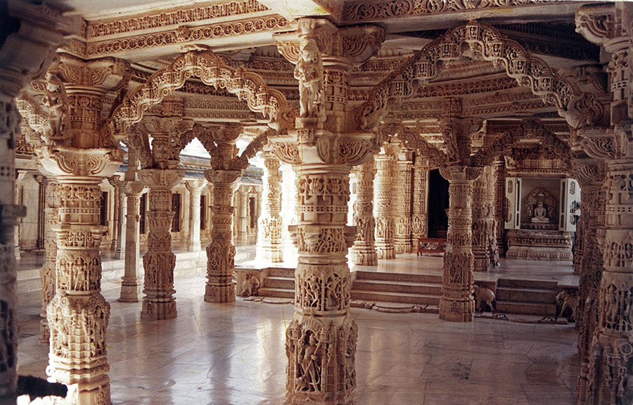 This is one of the most important , precious and oldest Jain Temple....in world